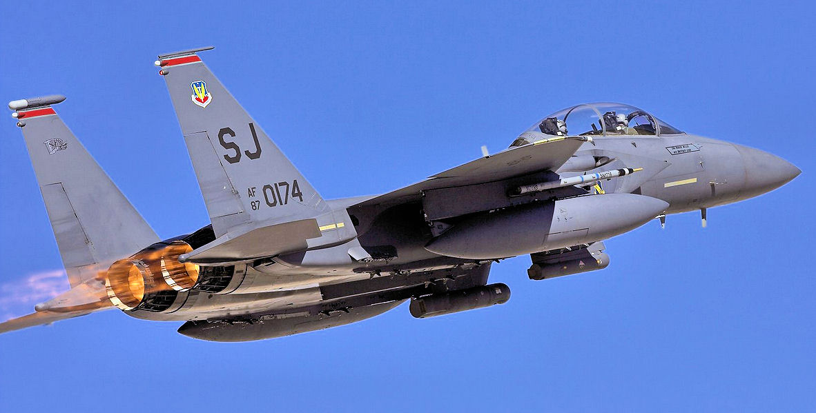 McDonnell Douglas F-15E-43-MC Strike Eagle 87-0174 333rd Fighter Squadron